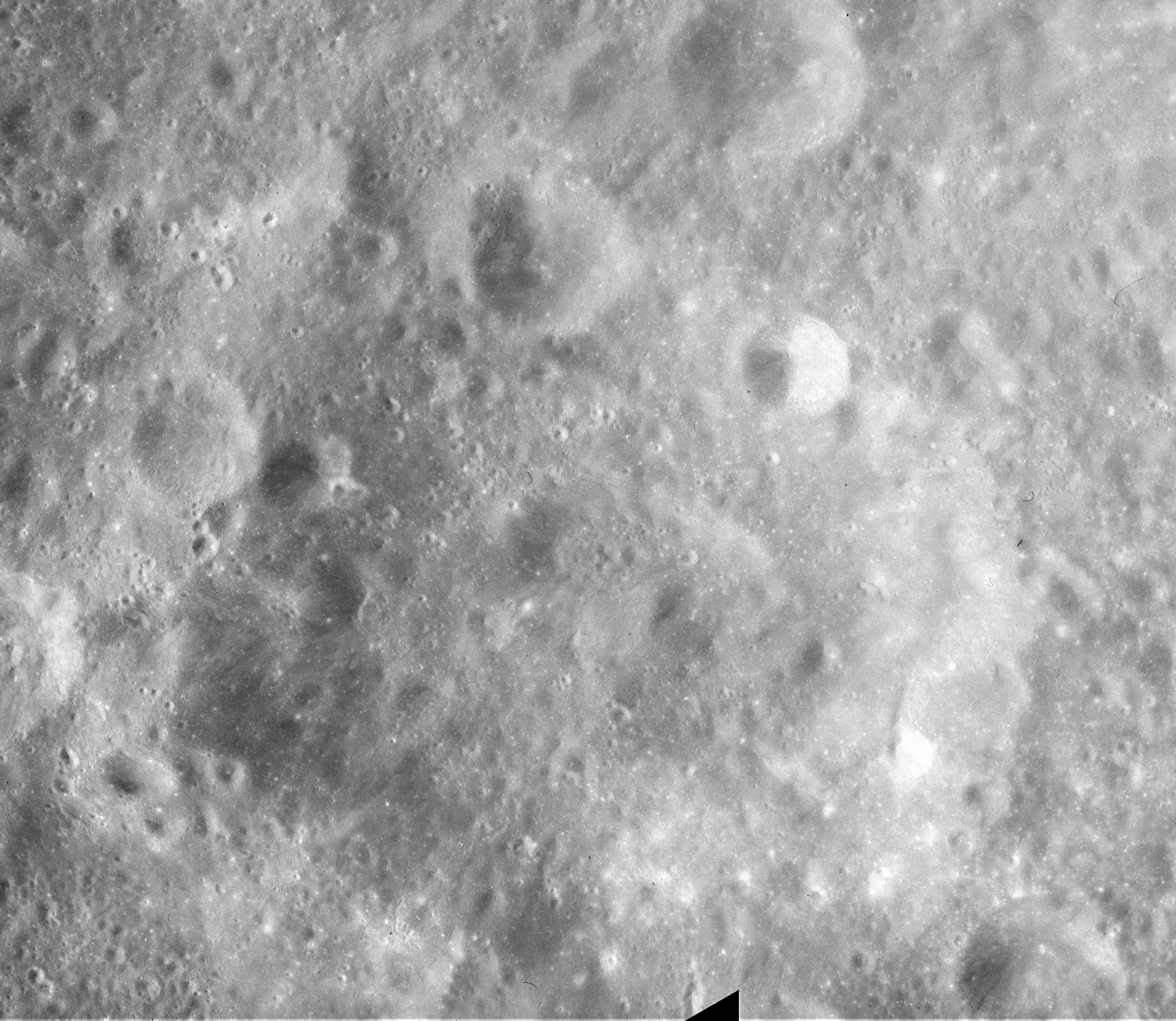 Gregory, on the far side of the moon. Sun angle 52 deg, camera altitude 124 km.